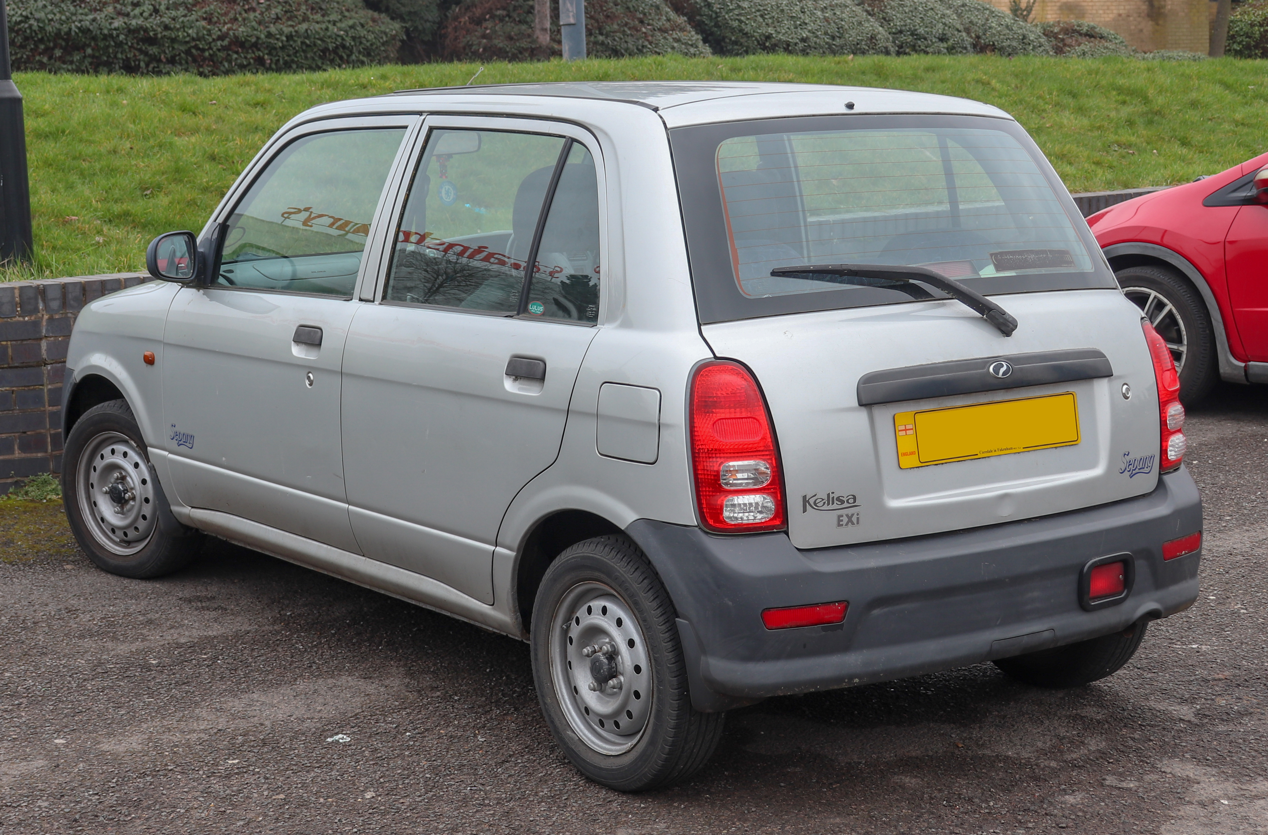 2005 Perodua Kelisa EX 1.0 Rear Taken in Leamington Spa